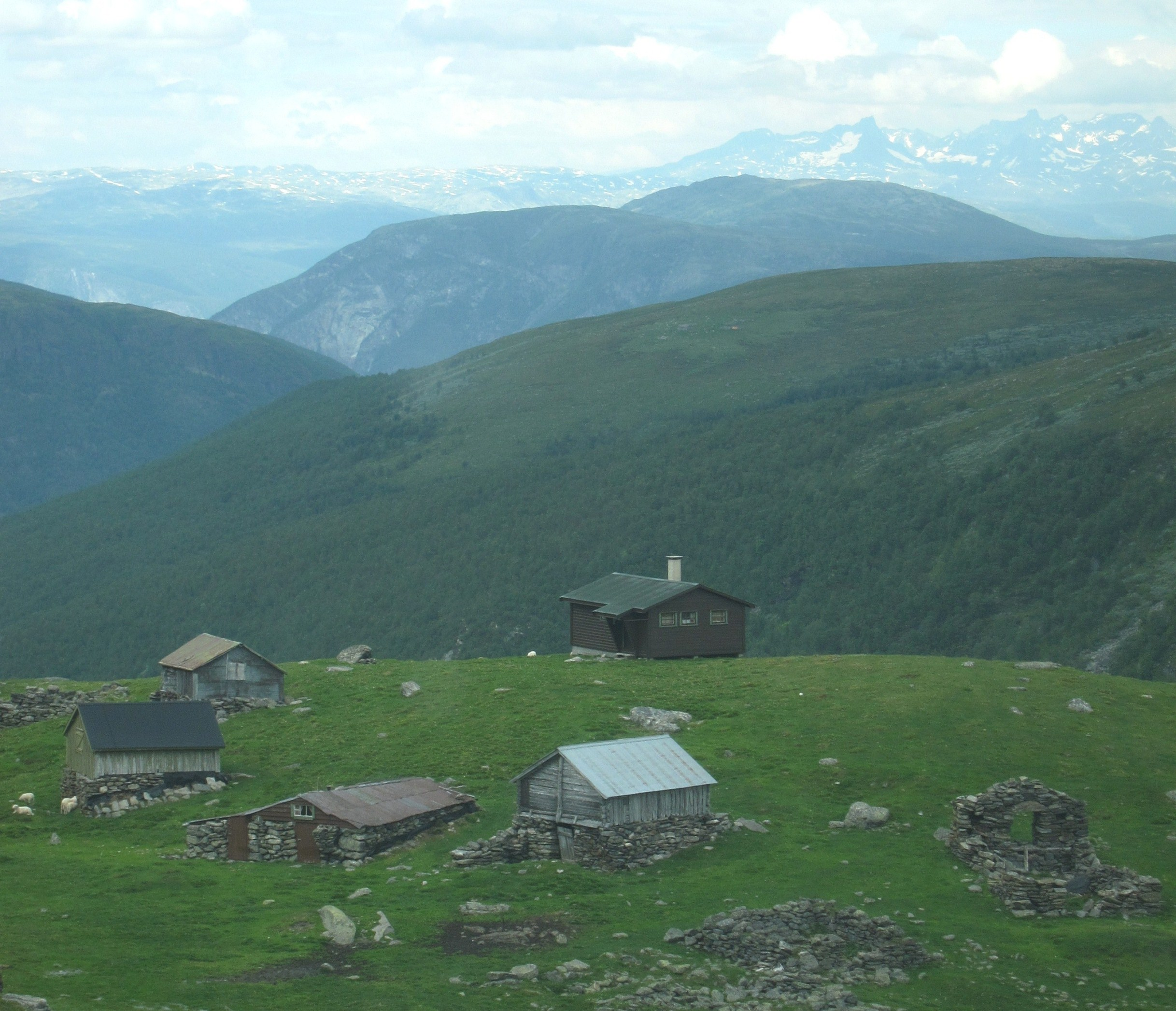 Summer farm (shieling) with cabins along road 243 (Aurland mt pass), Hurrungane summits in the distance